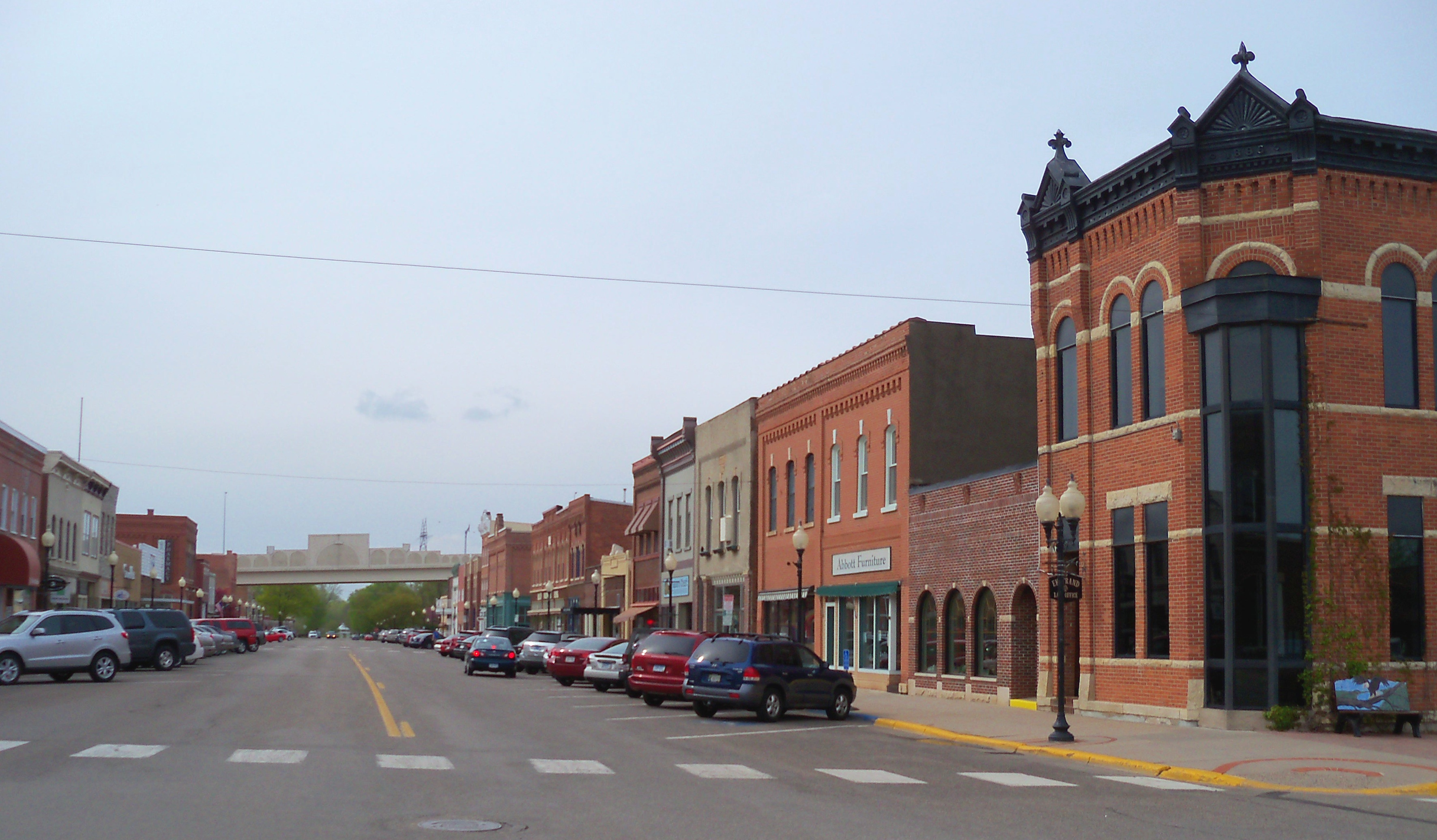 Downtown Wabasha, Minnesota, USA.